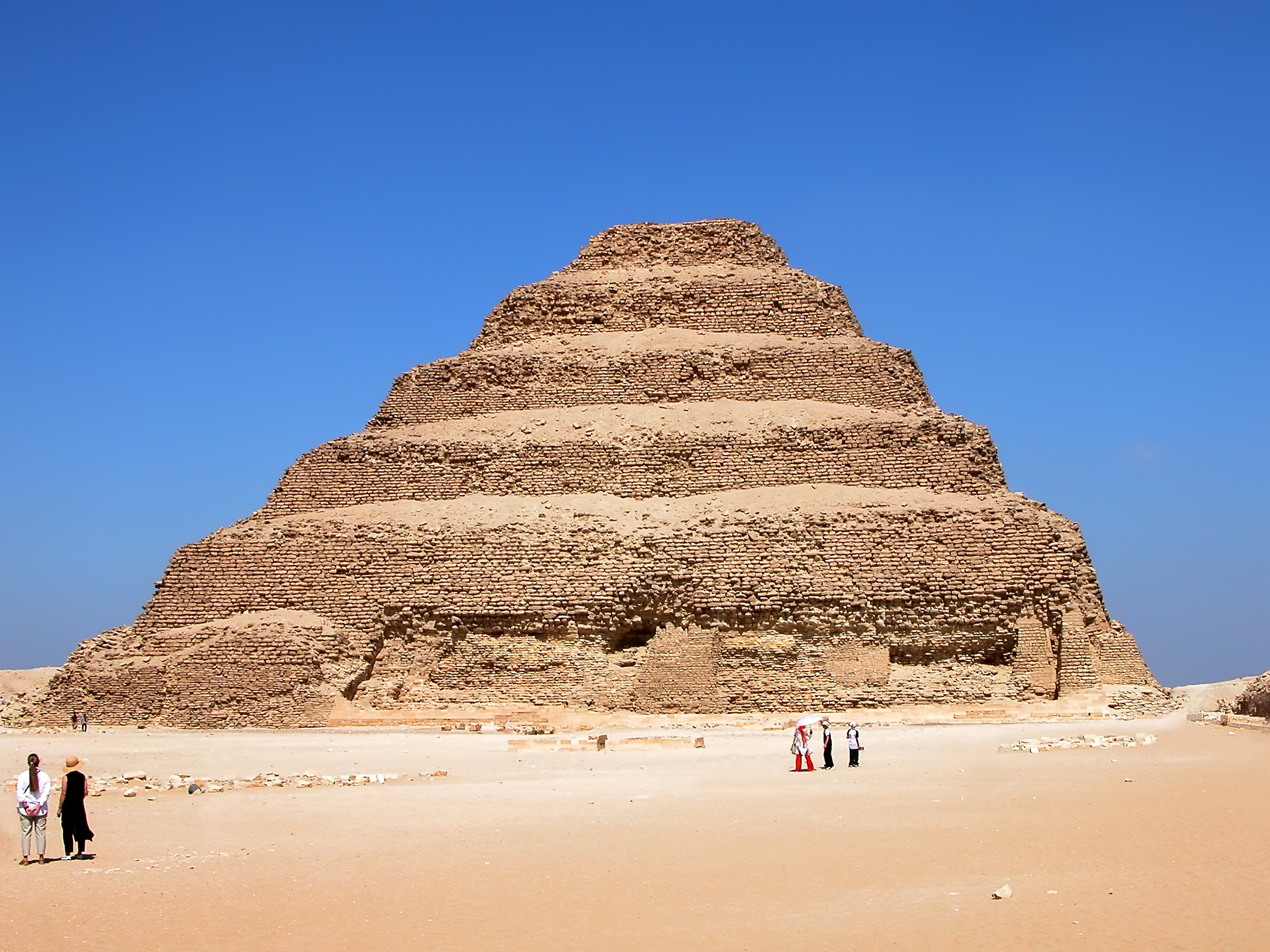 DO NOT SEND ME E-MAIL REQUESTING ME TO LOOK AT A PICTURE, I RETURN ALL COMMENTS IF YOU COMMENT. The Step Pyramid of Djoser is located at Saqqara, just south of Memphis. It started as a mastaba and was expanded six different times to six levels. A mastaba is a type of Ancient Egyptian tomb in the form of a flat-roofed, rectangular structure with outward sloping sides that marked the burial site of many eminent Egyptians of Egypt's ancient period. This pyramid is the earliest stone pyramid in Egypt, thus became an important milestone in Ancient Egyptian Architecture that laid the basis for future and more advanced pyramids in Egypt. The Step Pyramid was already an attraction for many centuries. Evidence has shown that travelers and pilgrims have come to see the pyramid from as early as the Middle Kingdom Period (2040 to 1640 BC). The Step Pyramid of Zoser was built approximately between 2649 to 2575 BC, during the 3rd Dynasty and under the rule of the pharaoh Zoser (or Djoser). The building was under the leadership of the pharaoh’s architect Imhotep. Because of Imhotep’s immense influence and contribution over Ancient Egyptian architecture, he was later deified and became god of the architects and doctors. Special permission from the Antiquities Inspectorate is needed to access the pyramid’s interiors. Original height: 62.198 m (204 ft) Base: 125.27 x 109.11 m (411 x 358 ft)